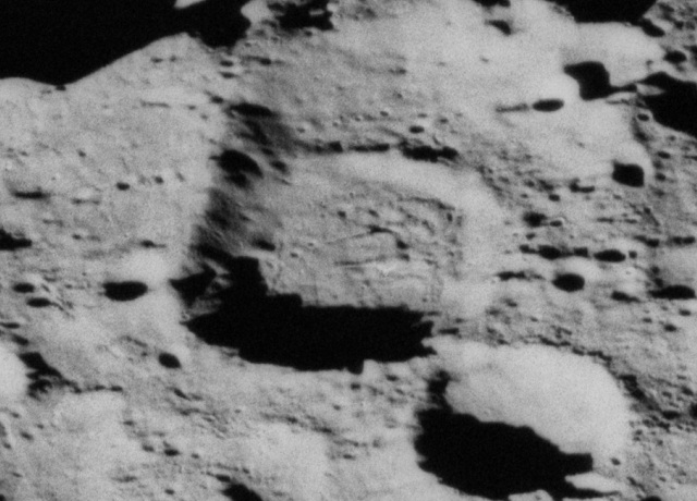 Oblique view of Hogg crater, on the far side of the moon